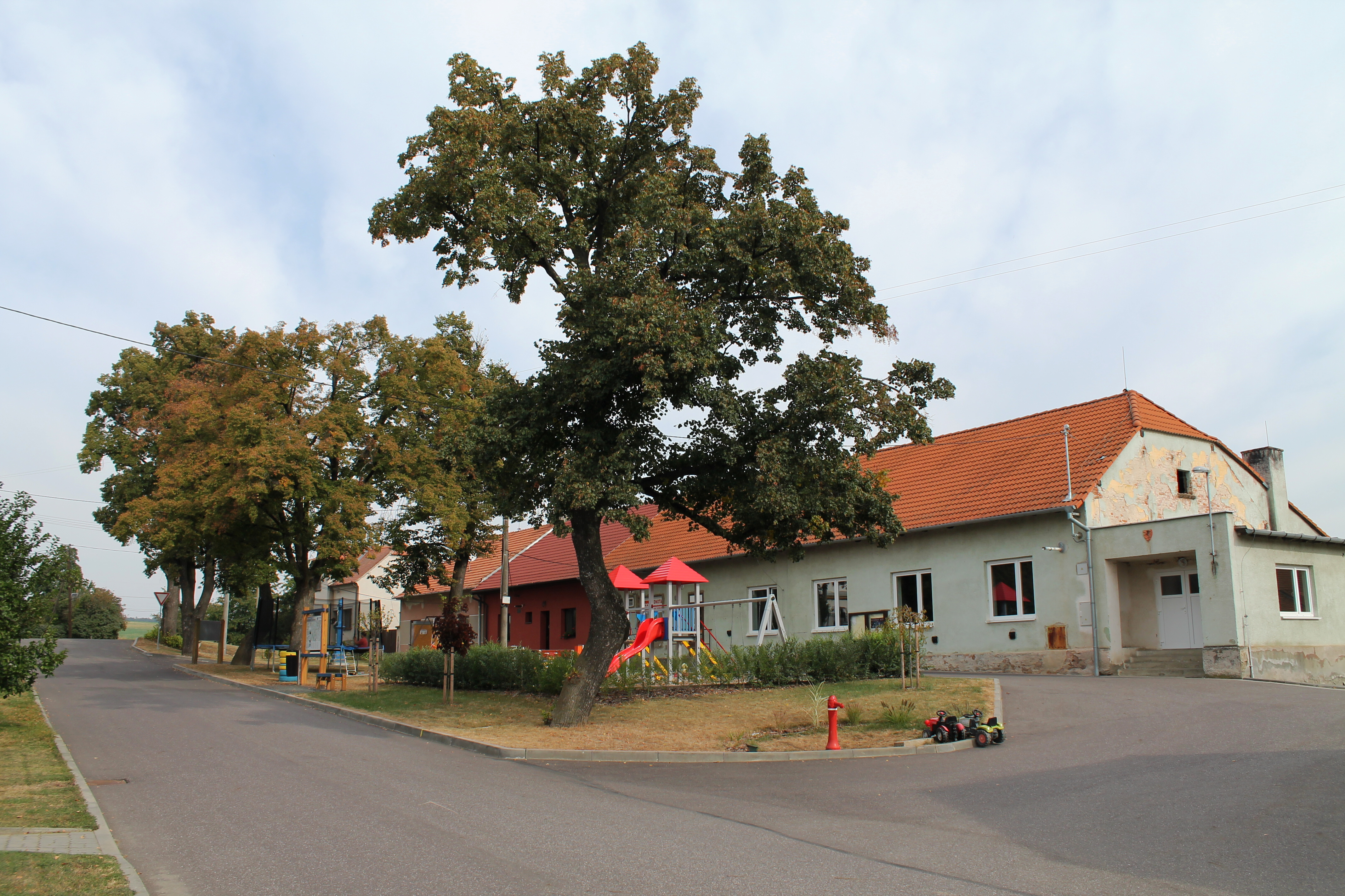 Džbánice, Znojmo District, Czech Republic This photograph was taken during a group photography field trip by Brno Wikipedians: 2016-09-28.